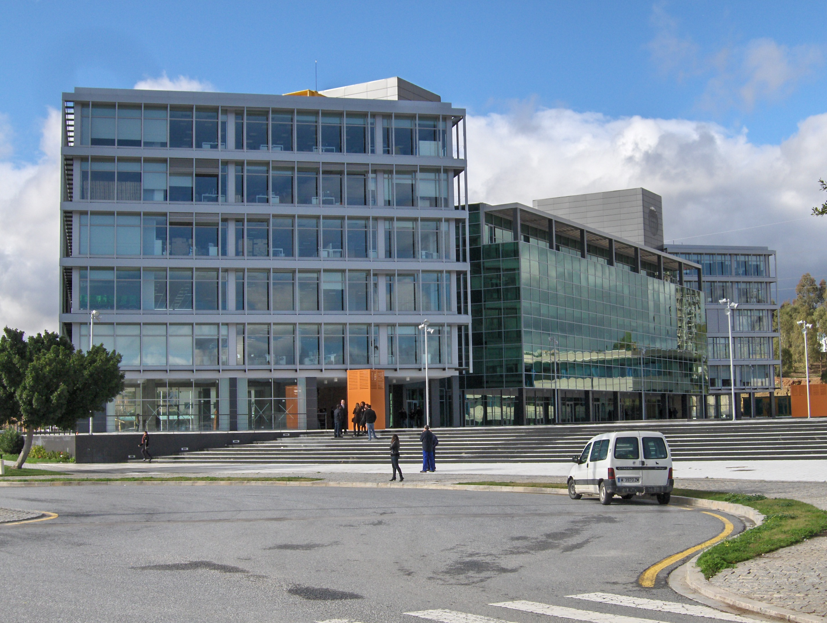 Alei Center, Parque Tecnológico de Andalucía, Málaga.